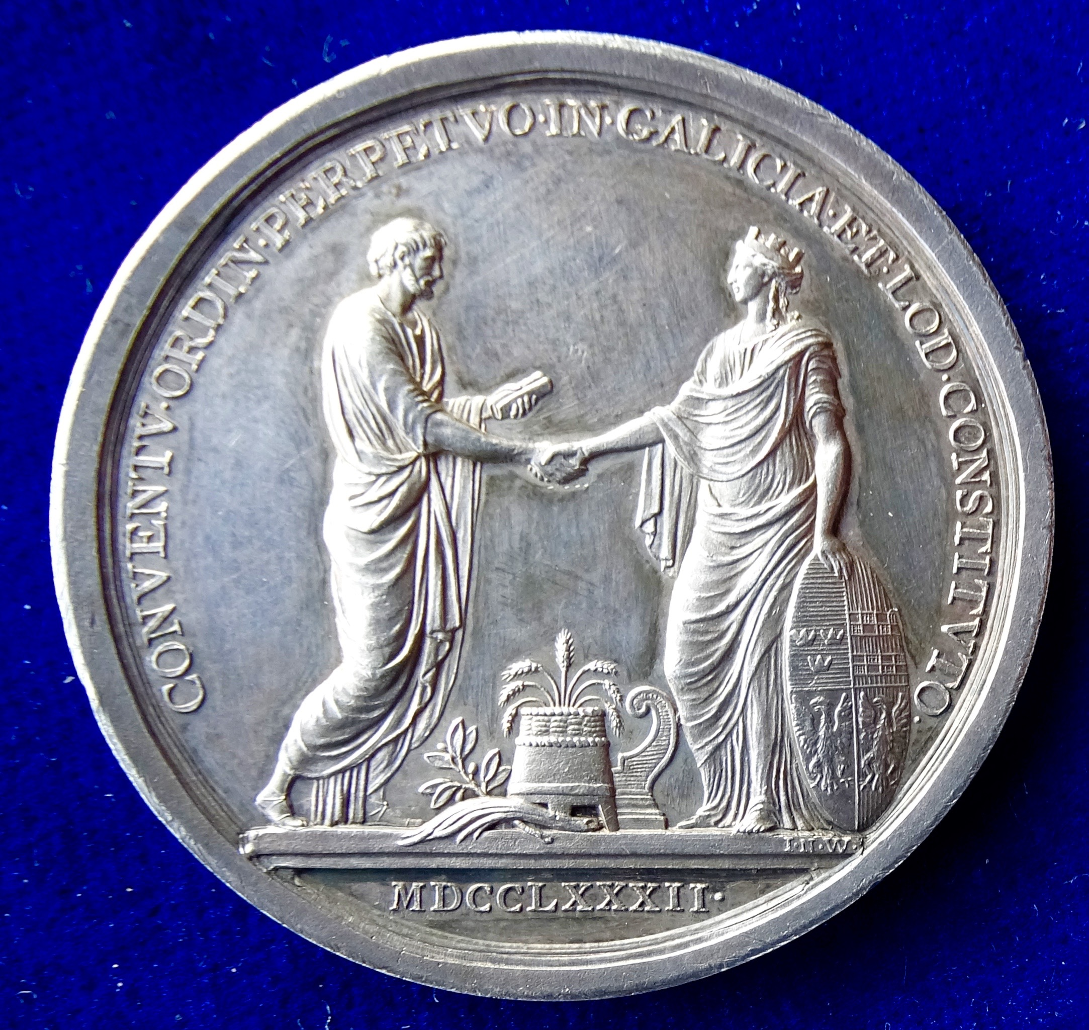 In 1772 with the partition of the Polish-Lithuanian Commonwealth, the south-eastern part of the former Polish-Lithuanian Commonwealth was awarded to the Habsburg Empress Maria-Theresa. In 1782 a parliament was constituted by emperor Joseph II. Known as Galicia and Lodomeria, it became the largest, most populous, and northernmost province of the Austrian Empire until the dissolution of that monarchy at the end of World War I in 1918, when it ceased to exist as a geographic entity. Silver medallion, d = 43 mm. 26.23 g Ag. Joseph II, Holy Roman Emperor, 1764 - 1790 Head r., around: "IOS. II. AUG. ET. LOD. R. OSVIC. ET. ZAT. D."/ The personification of Galicia r. shaking hands with a Roman lawyer r. Curved above: "CONVENTV. ORDIN. PERPETVO. IN. GALIZIA. ET. LOD. CONSTITVTO." In exergue: "MDCCLXXXII". Slg Julius 2779; Forrer VI, p.567. Medallist: I. N. (Johann Nepomuk) Wirt, 1753 Wien - 1811 Vienna. Condition: EXTREMELY FINE+, beautiful old patina.